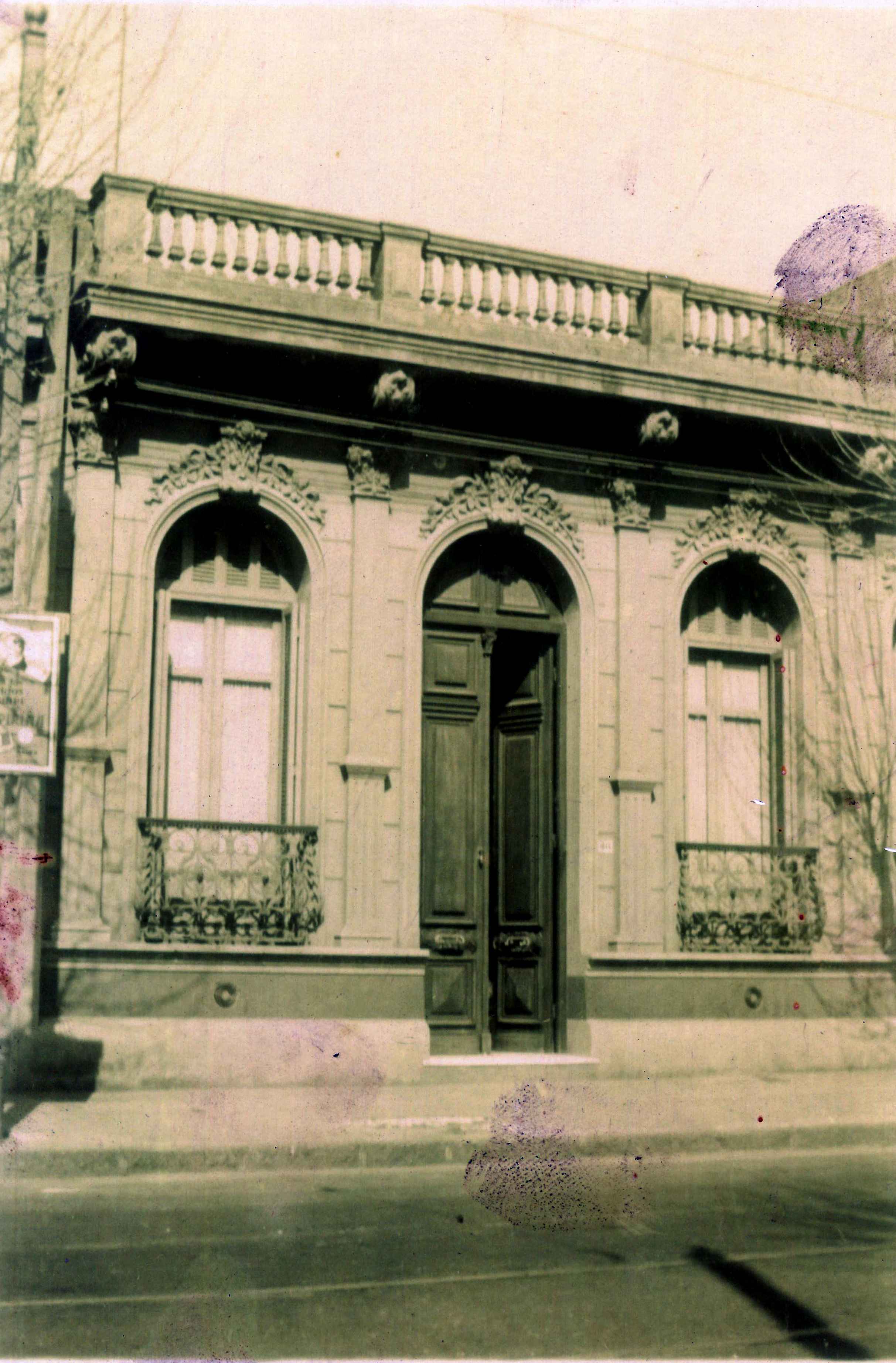 This is the house of Dr. Felipe Ferreiro in Montevideo, Uruguay. This place was visited by scholars, politicians and students from many places of South America to ask for the expert opinion of Dr. Ferreiro in many subjects concerning American history.